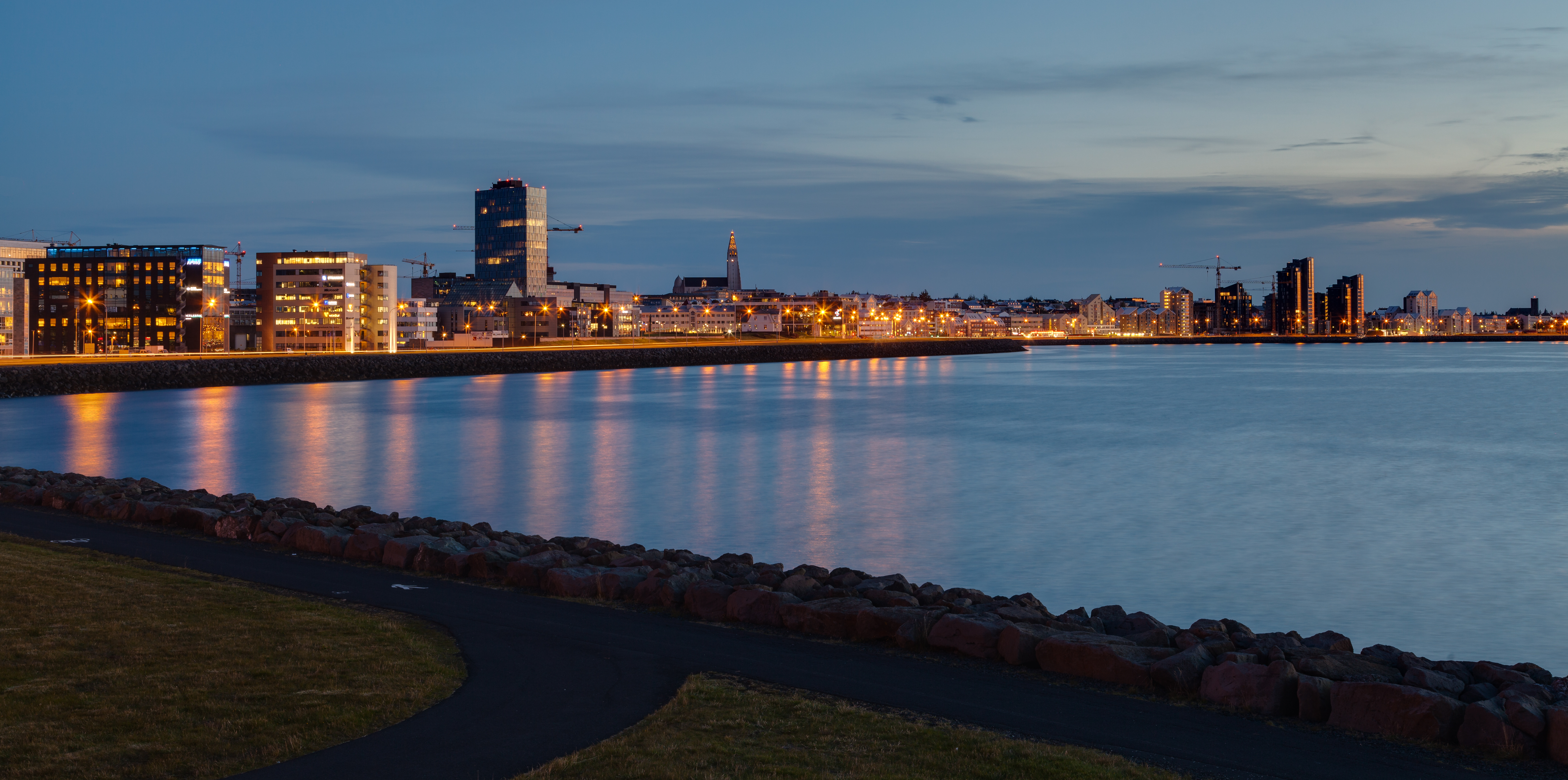 View of Reykjavik from the Shore Walk, Capital Region, Iceland